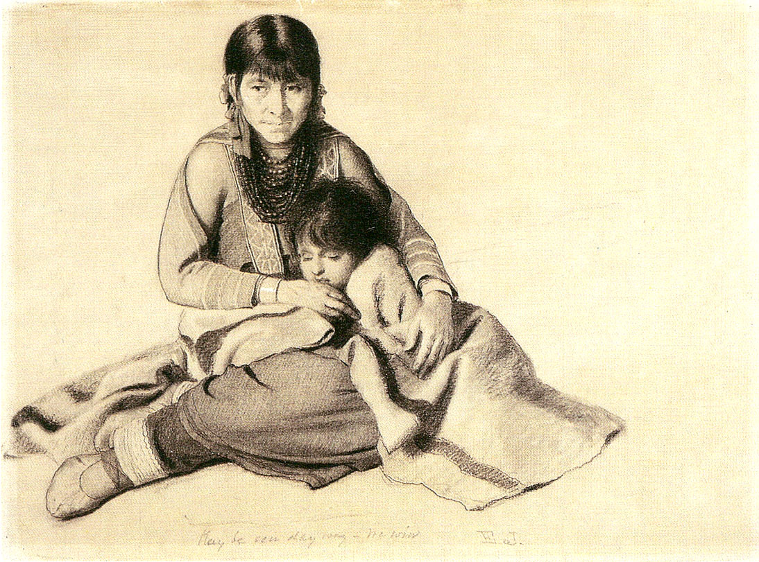 Kay be sen day way We Win - Charcoal and Crayon on Paper - 10.75 x 14 in